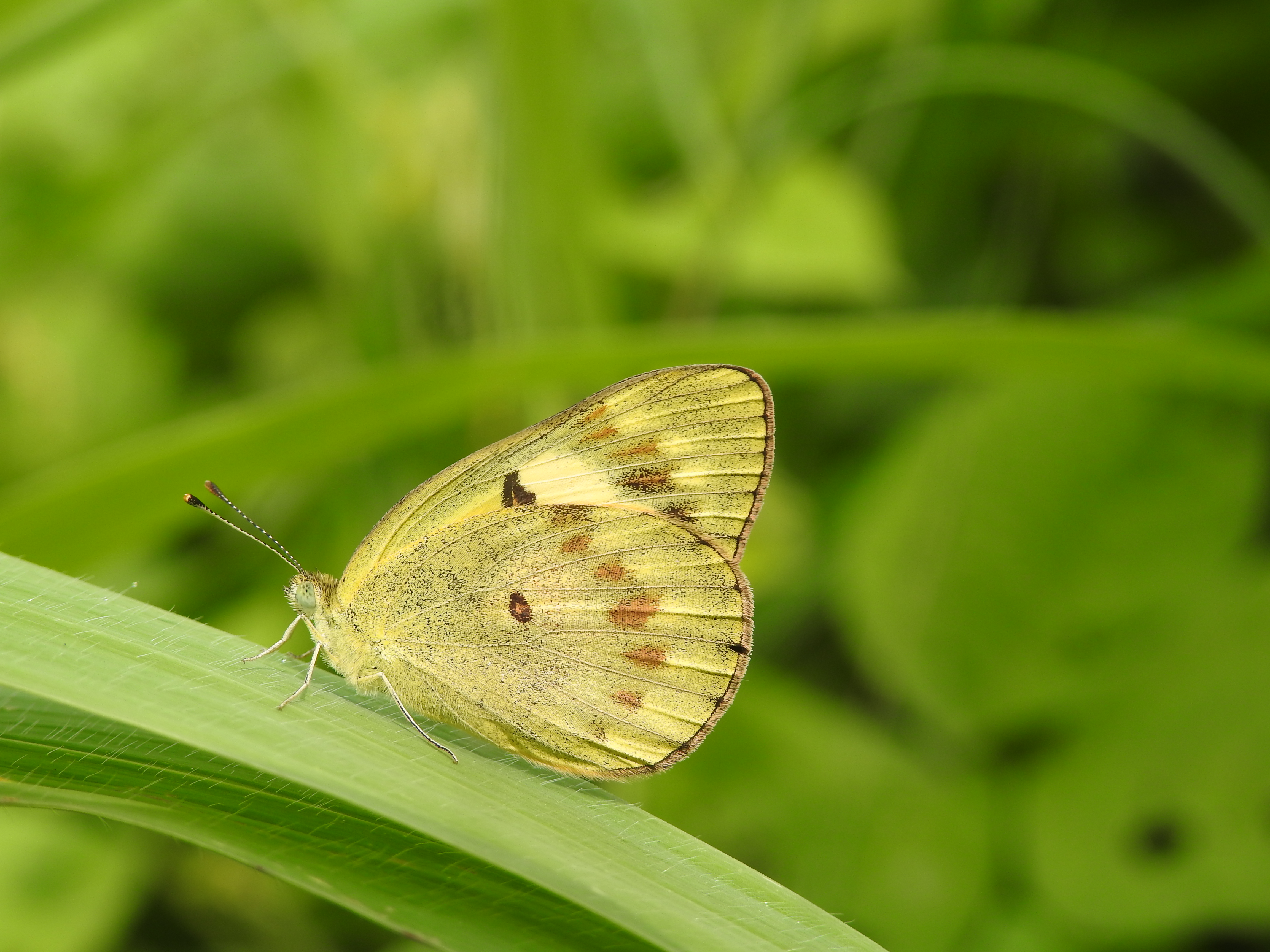 Small Salmon Arab Colotis amata. Photo taken by Dr. Raju Kasambe in Mumbai area, Maharashtra.